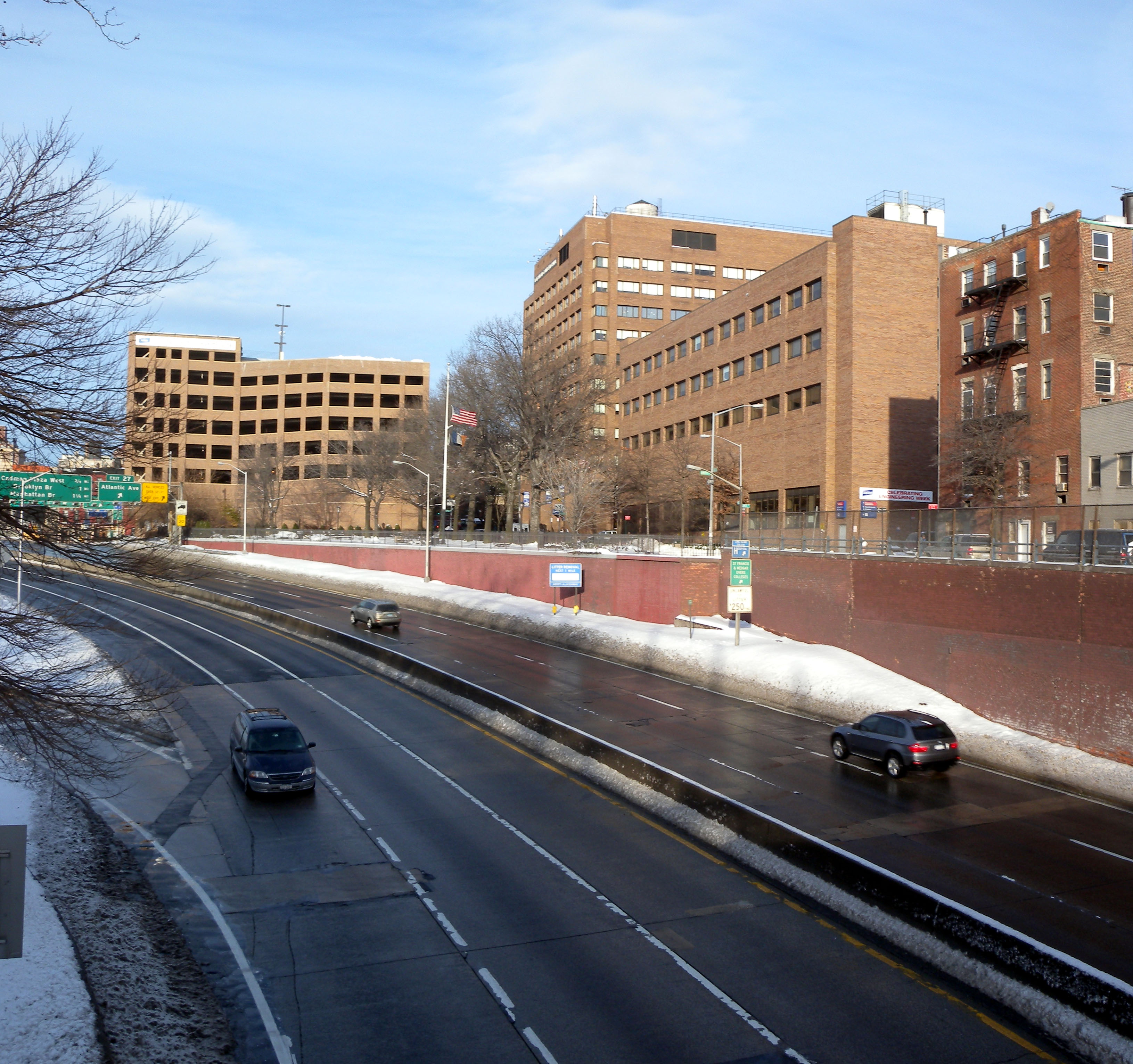 Looking north, along the Brooklyn-Queens Expressway, at Long Island College Hospital on a sunny afternoon after snowfall.